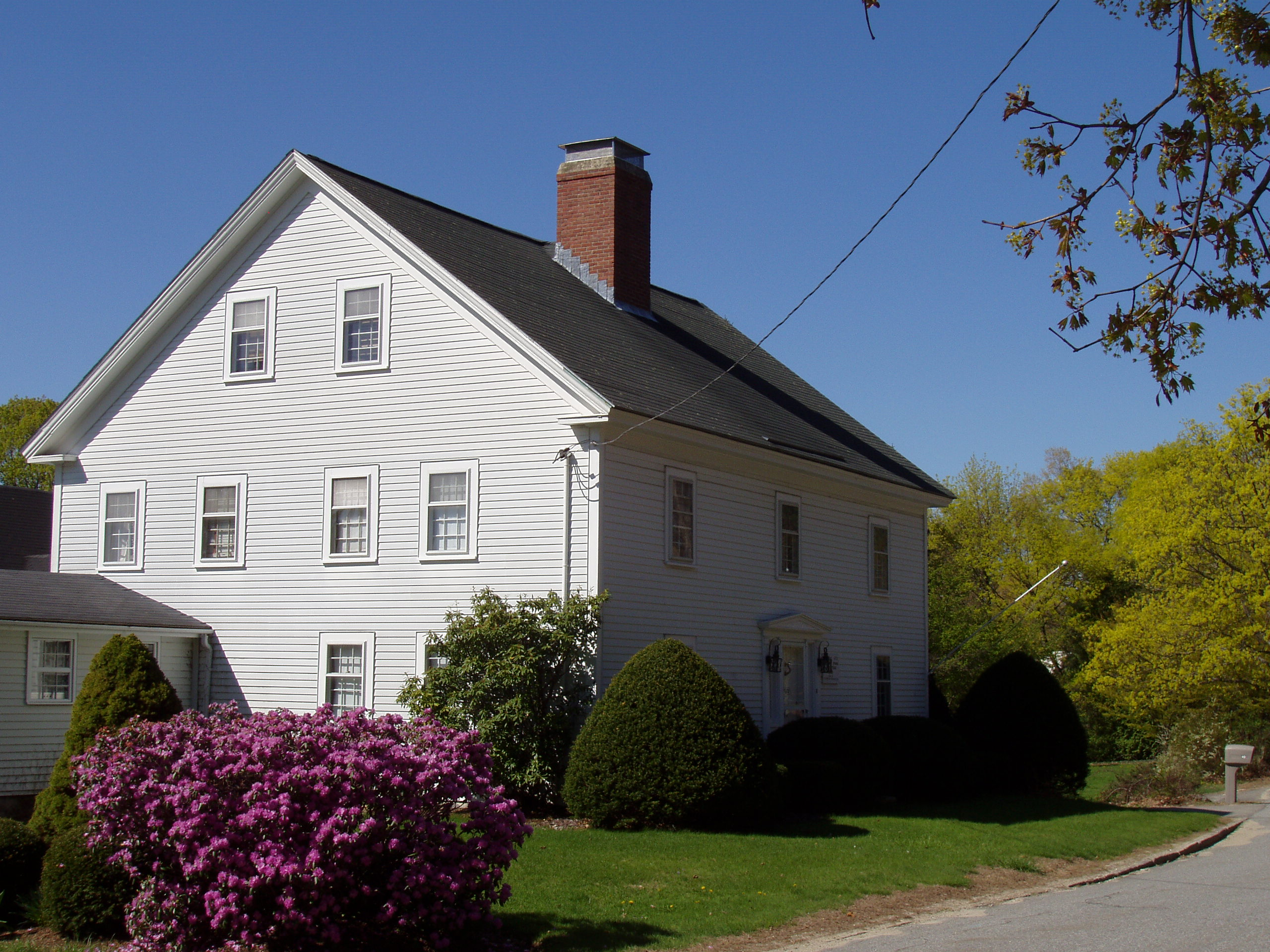 Barrett-Byam Homestead - Chelmsford, Massachusetts. Photograph taken by me, April 29, 2006.